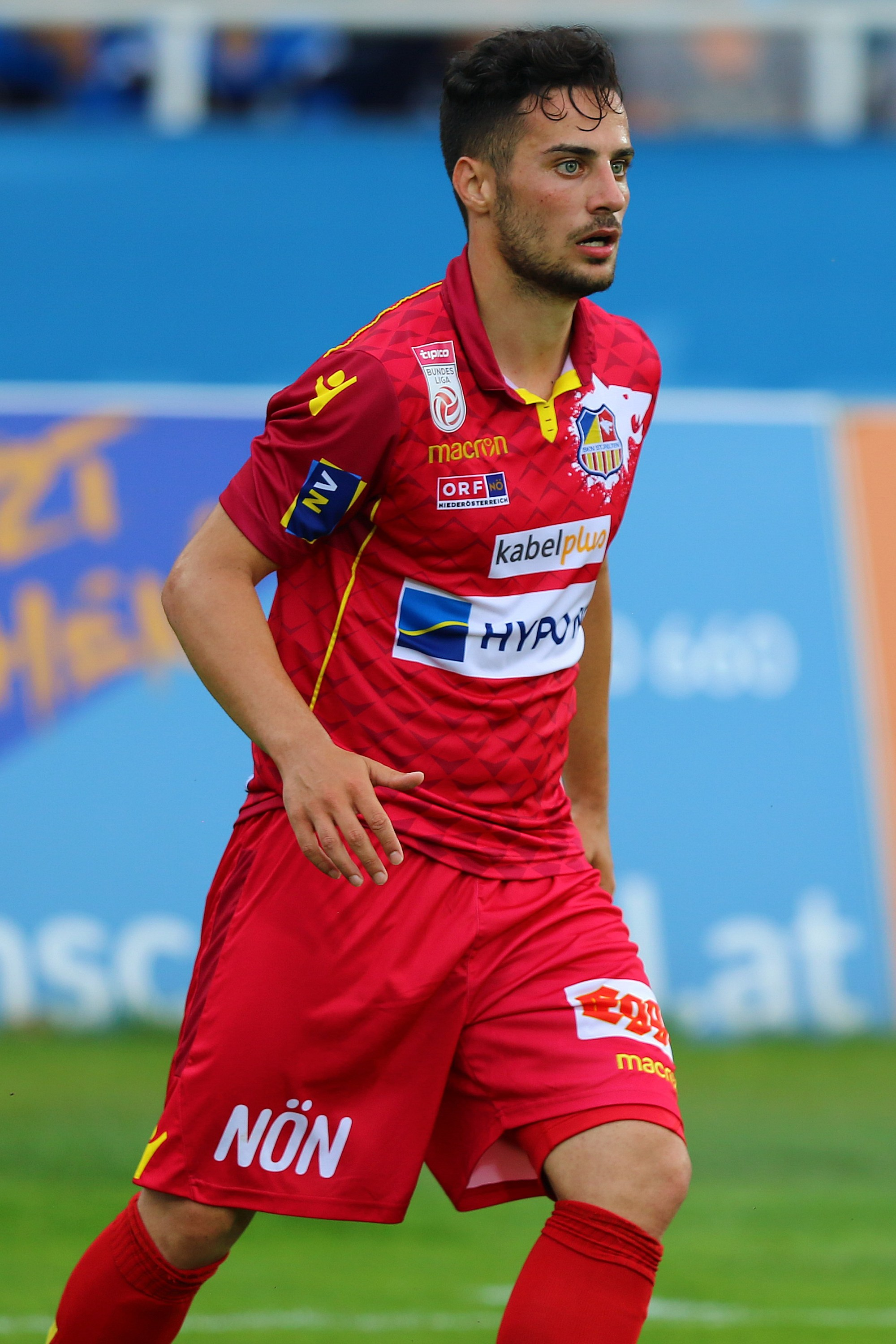 Football qualification match for the Austrian Bundesliga - SC Wiener Neustadt (white shirts) vs. SK St. Pölten (red shirts) 0-2. – The photo shows Eldis Bajrami.